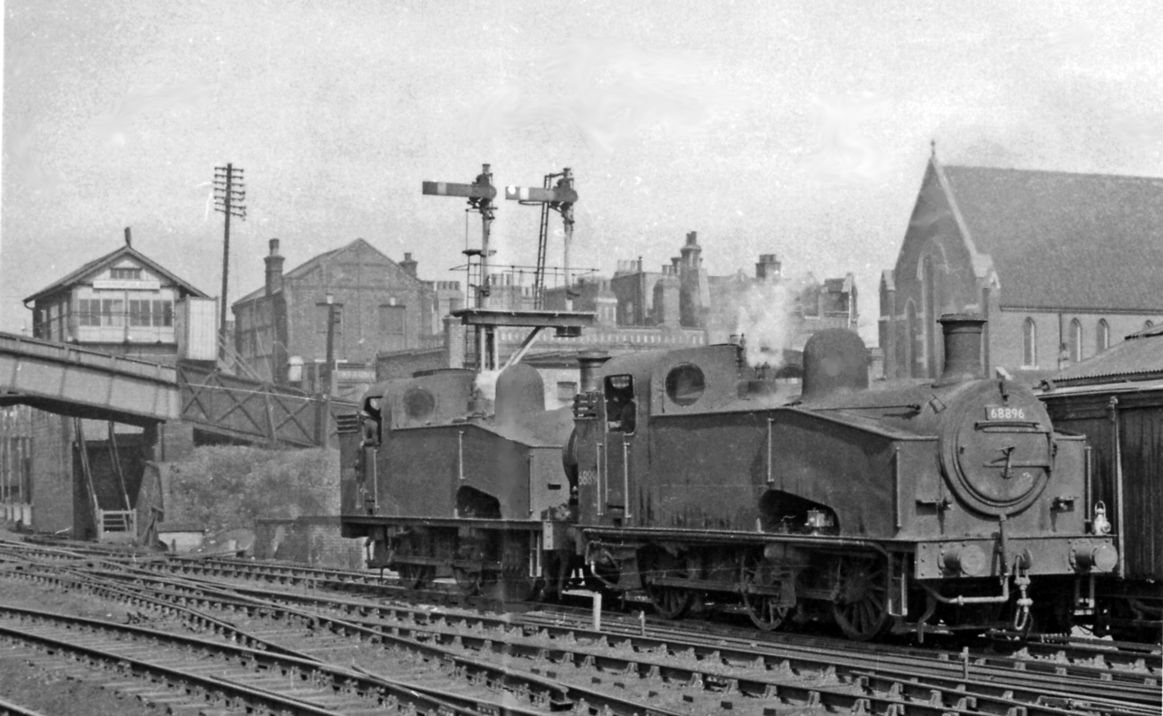 Two Gresley J50 0-6-0Ts at Harringay West station View northward on the ECML. The great Ferme Park Yards are just ahead and the engines have probably come over the flyover between the Down and Up Yards in order to go onto Hornsey Locomotive Depot, from which many of these (relatively modern) 0-6-0Ts worked in the 1950s. Leading is No. 68896 (one of the earlier GNR J23 series with smaller boiler) built 3/14 as No. 163, became LNER J51/1 No. 3163 (class J50/1 when given a larger boiler), No. 8896 in 1946, withdrawn 8/61); behind is No. 68975 (a much younger engine, built 3/30 as LNER J50/3 No. 2792, No. 8975 from 1946, withdrawn 7/61). On the left is Harringay Up Goods Box, behind the footbridge that crossed all lines and gave access to the island platforms.